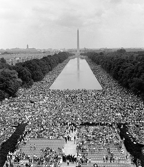 "Hundreds of thousands descended on Washington, D.C.'s, Lincoln Memorial Aug. 28, 1963. It was from the steps of the memorial that King delivered his famous I Have a Dream speech. King's many speeches and nonviolent actions were instrumental in shaping the nation's outlook on equality."